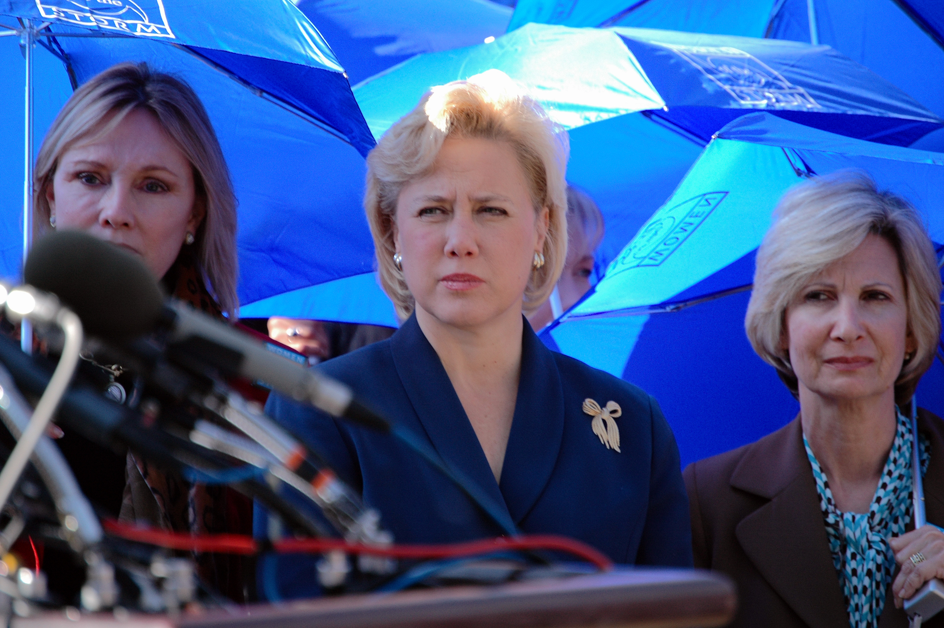 Senator Mary Landrieu Joins "Women of the Storm" in Washington Rally to invite federal officials to visit Louisiana and see first-hand the devastation caused by Hurricanes Katrina and Rita.